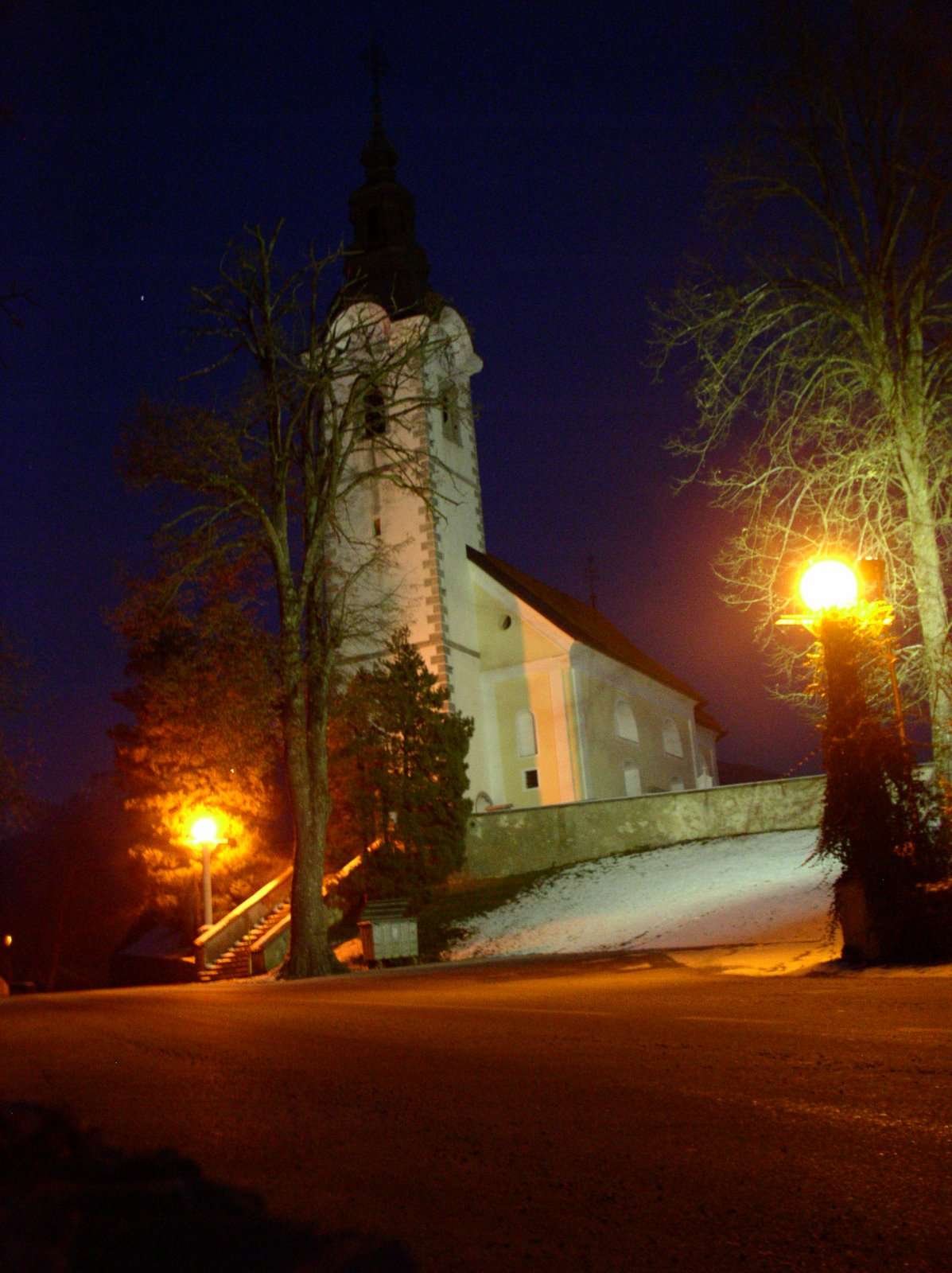 Saint Margaret church, Trata pri Velesovem